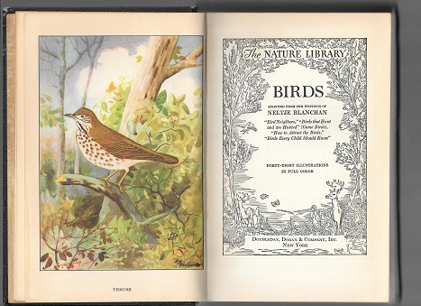 photograph of frontspiece of book